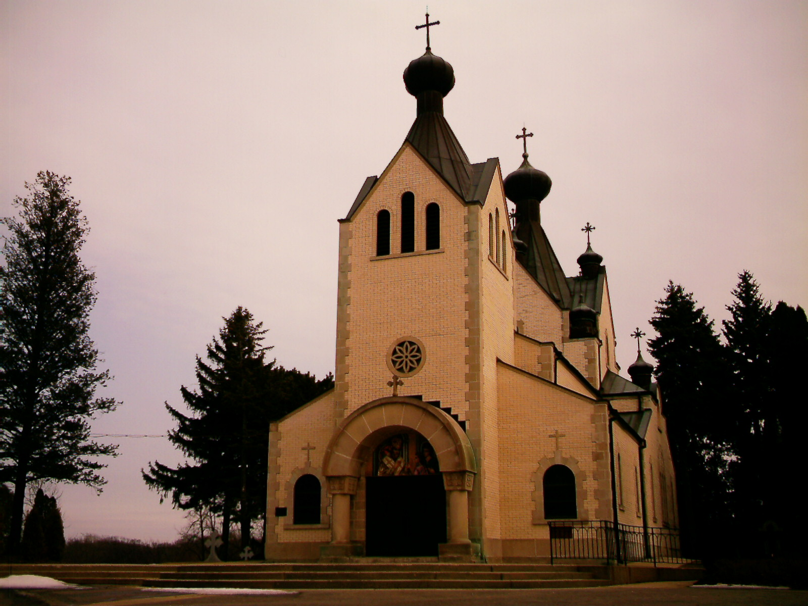 Serbian Orthodox Church Gurnee, Illinois